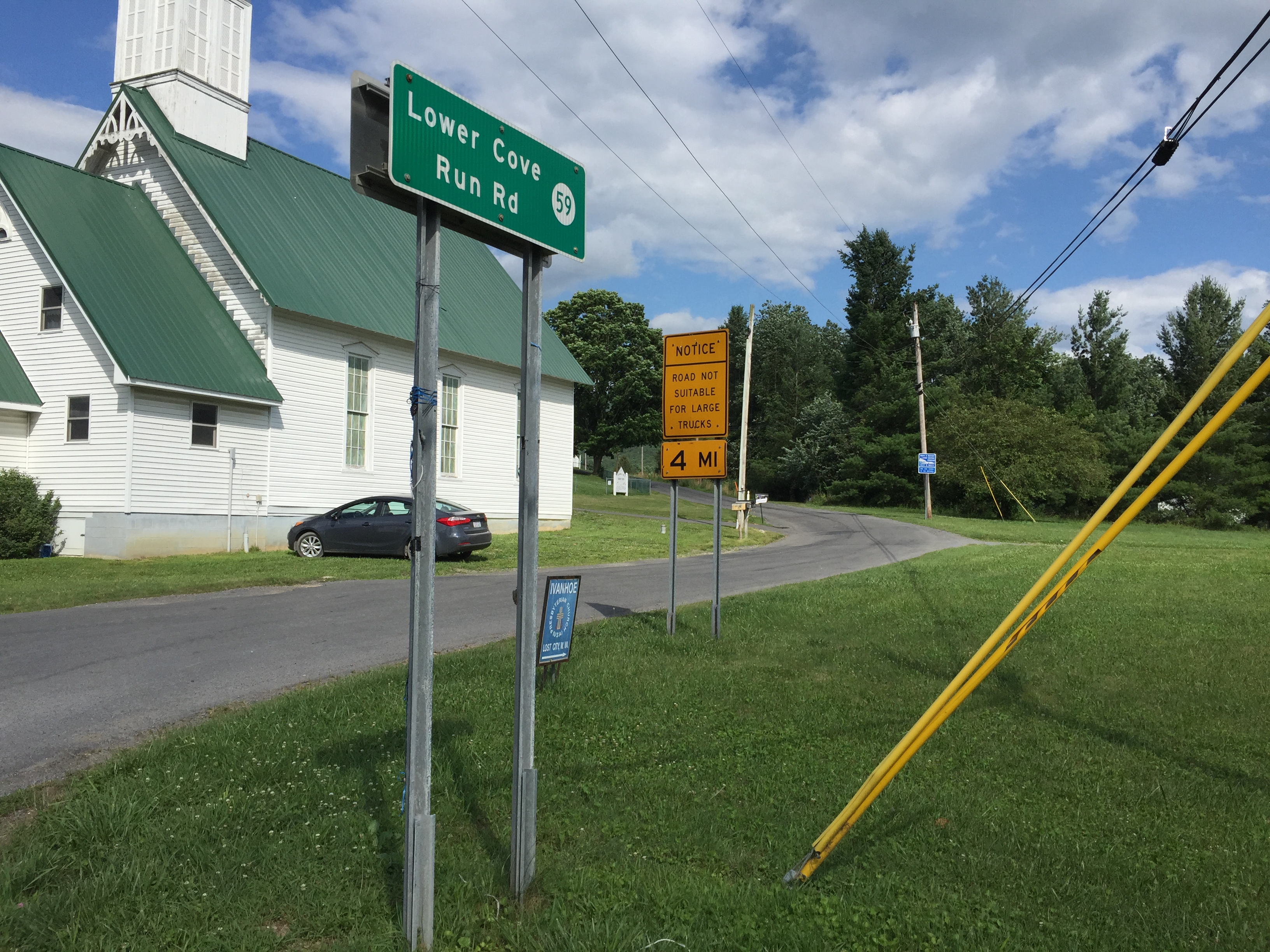 View east along West Virginia State Route 59 (Lower Cove Run Road) at West Virginia State Route 259 in Lost City, Hardy County, West Virginia